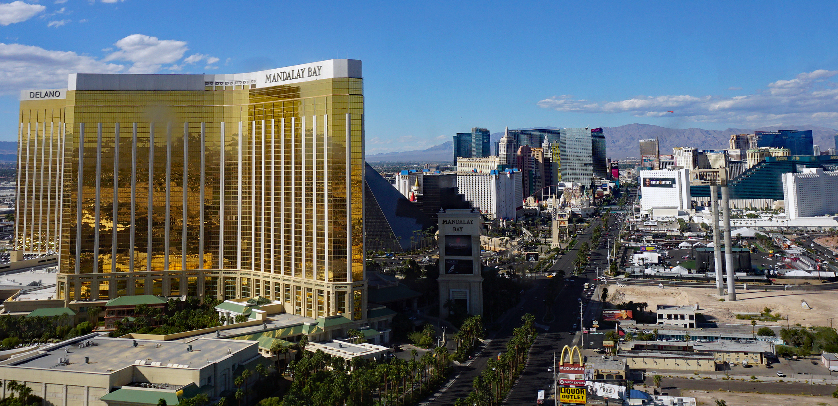 Route 91 Harvest Festival shooting site, Las Vegas Village and Festival Grounds, Las Vegas Strip, Nevada. Pictures taken one week before the beginning of the country music festival from a helicopter, adjusted with Photoshop to reduced window glare and stains in the glass. The image shows final preparations for the Route 91 Harvest Festival and the surrounding main casinos and hotels.